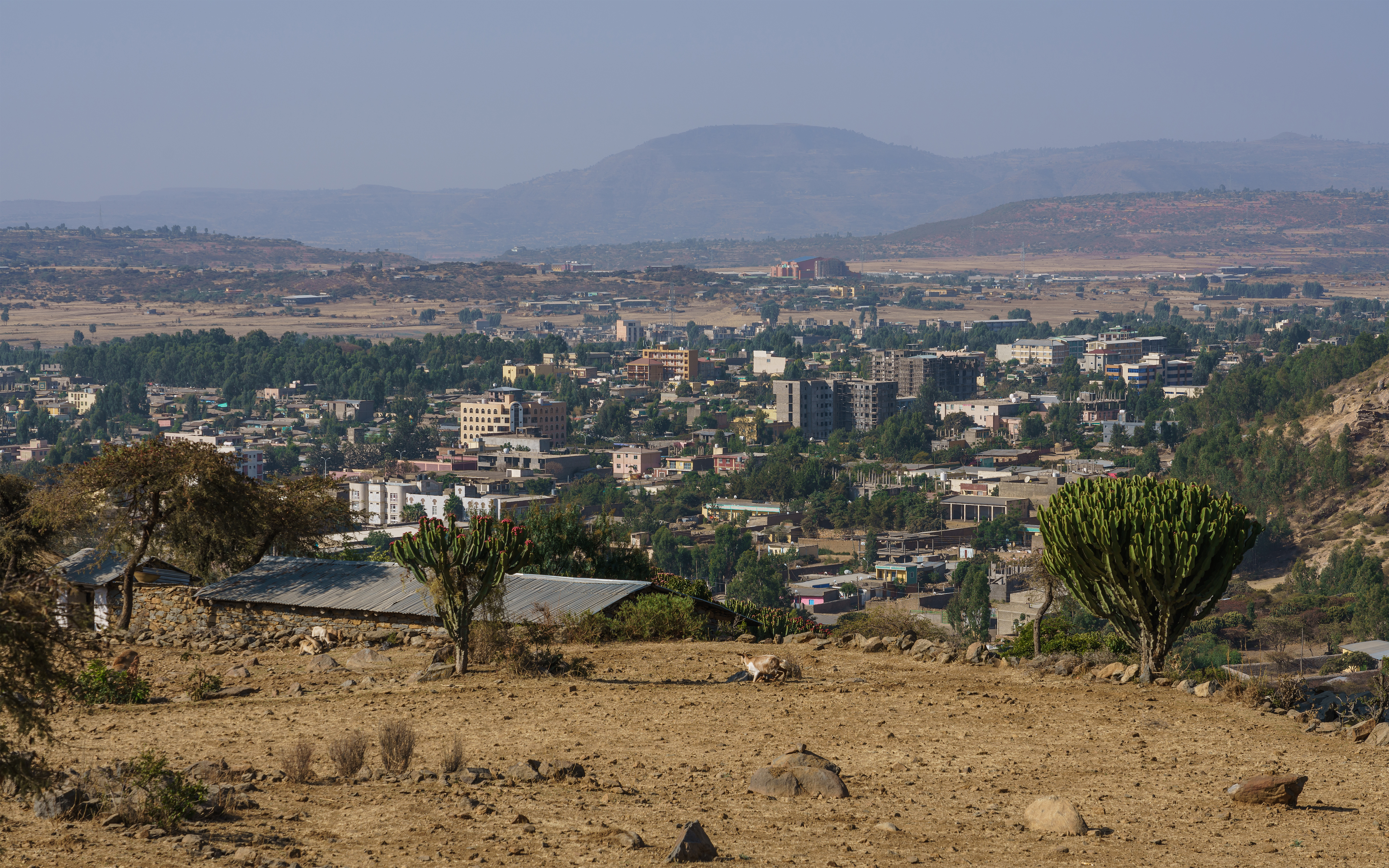 View from the hill near Abba Pentalewon in Aksum, Tigray Region, Ethiopia